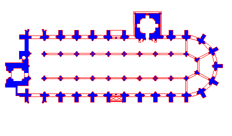 reduced plan of St. Georg Dinkelsbühl